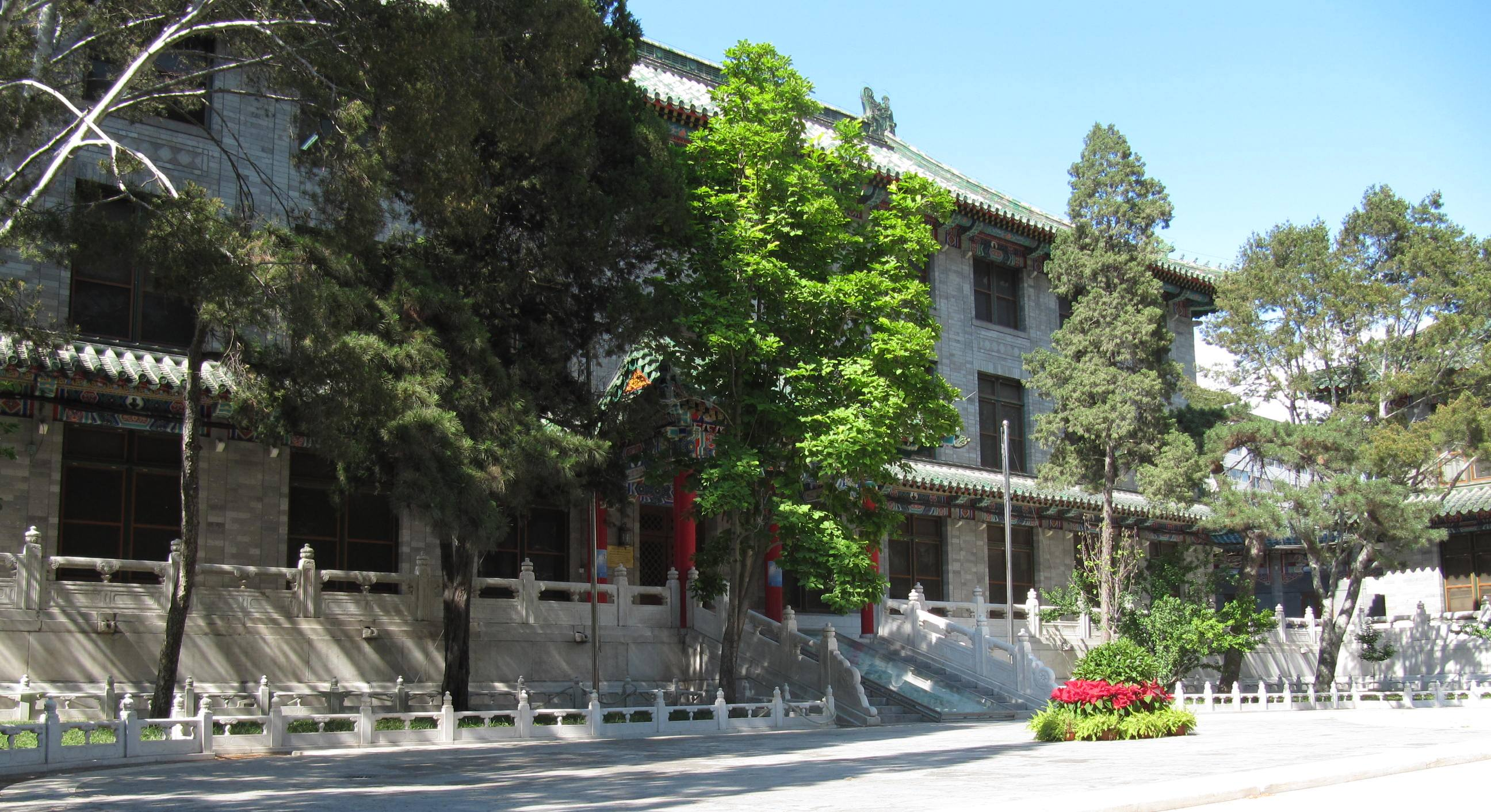 The old buildings of the Peking Union Medical College Hospital in Beijing.